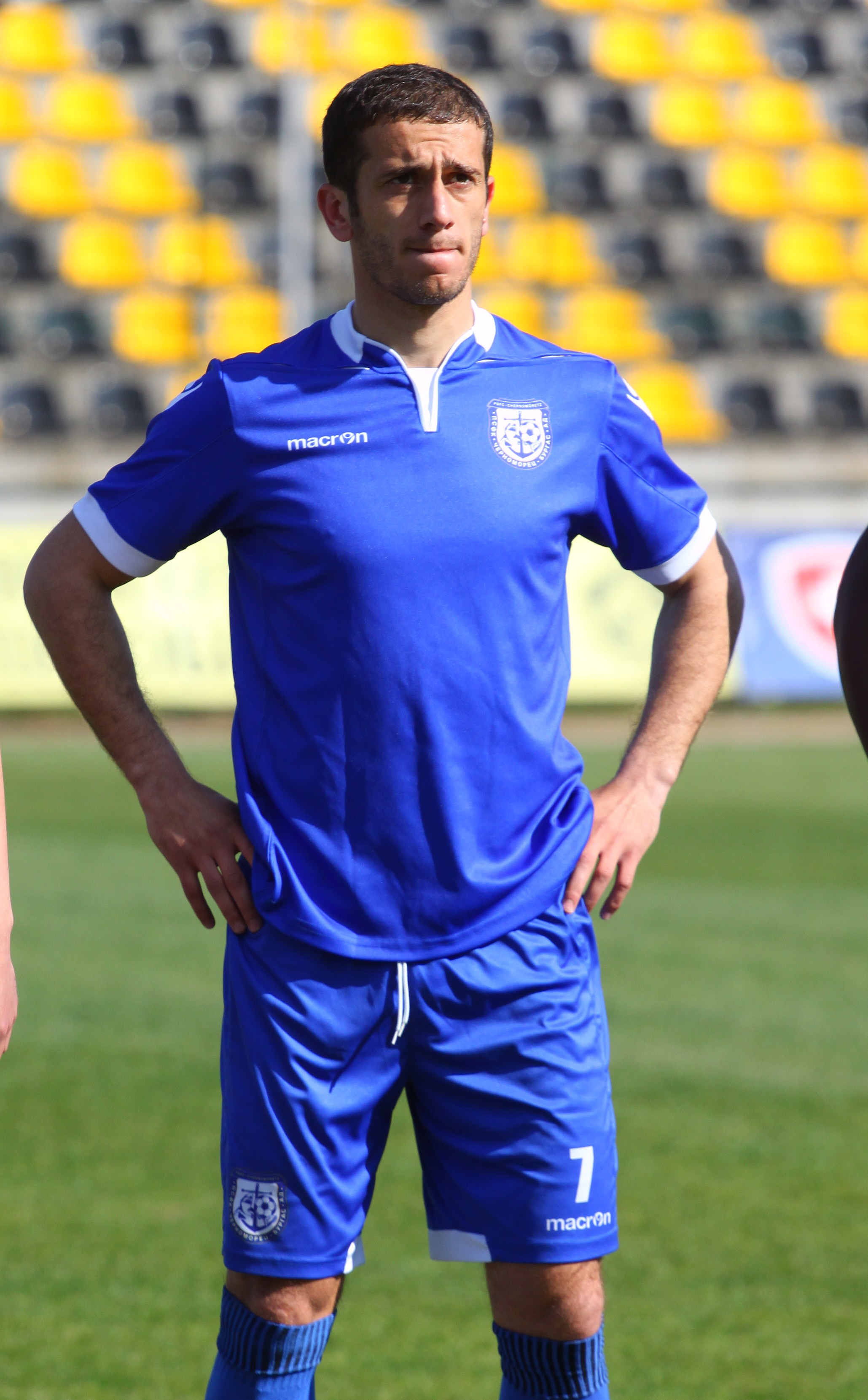 Samvel Melkonyan (Armenian: Սամվել Մելքոնյան, born on 15 March 1984 in Yerevan, Armenian SSR, Soviet Union) is an Armenian football player currently playing for Chernomorets Burgas.